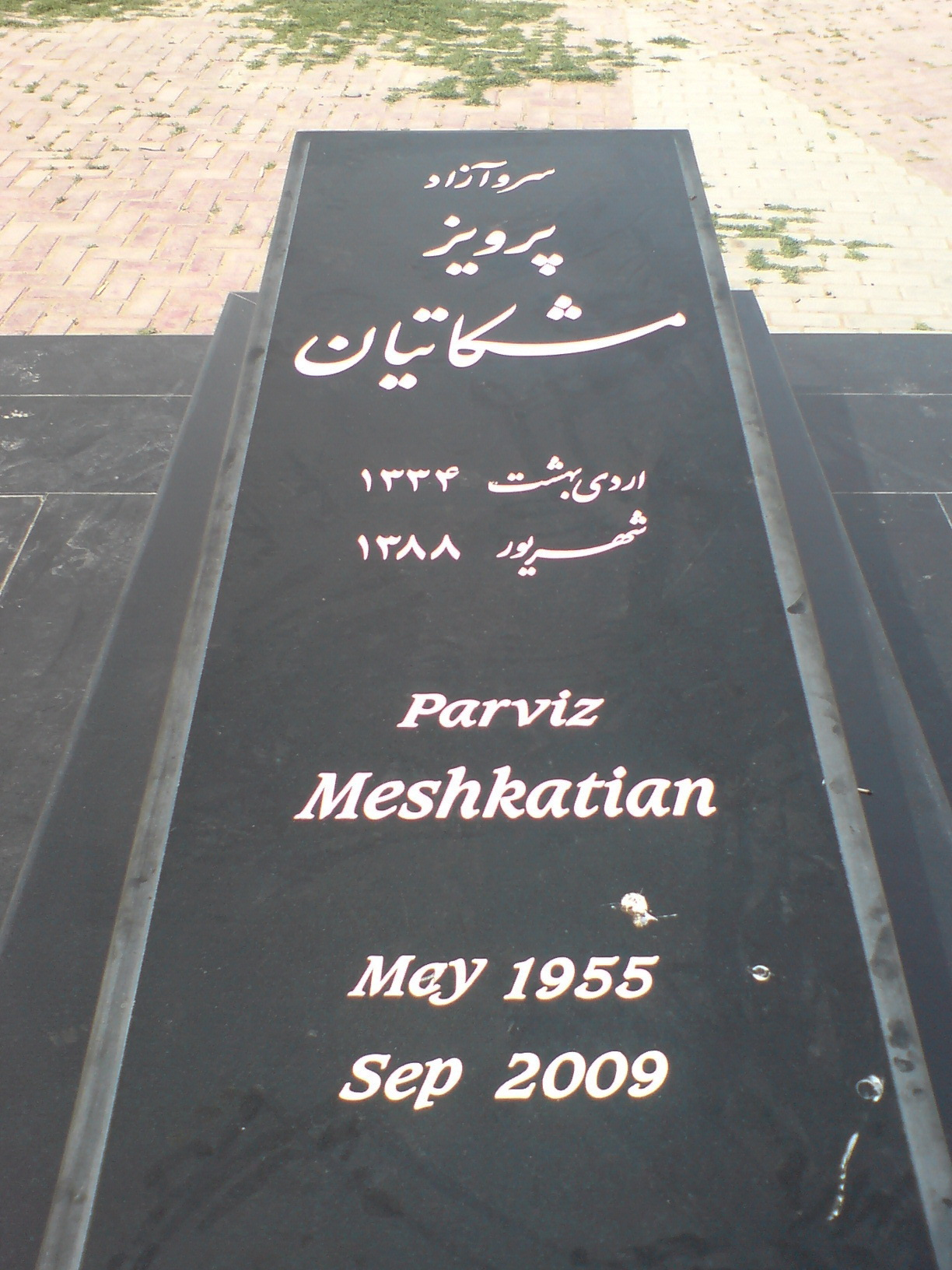 Gravestone_of_Parviz_Meshkatian